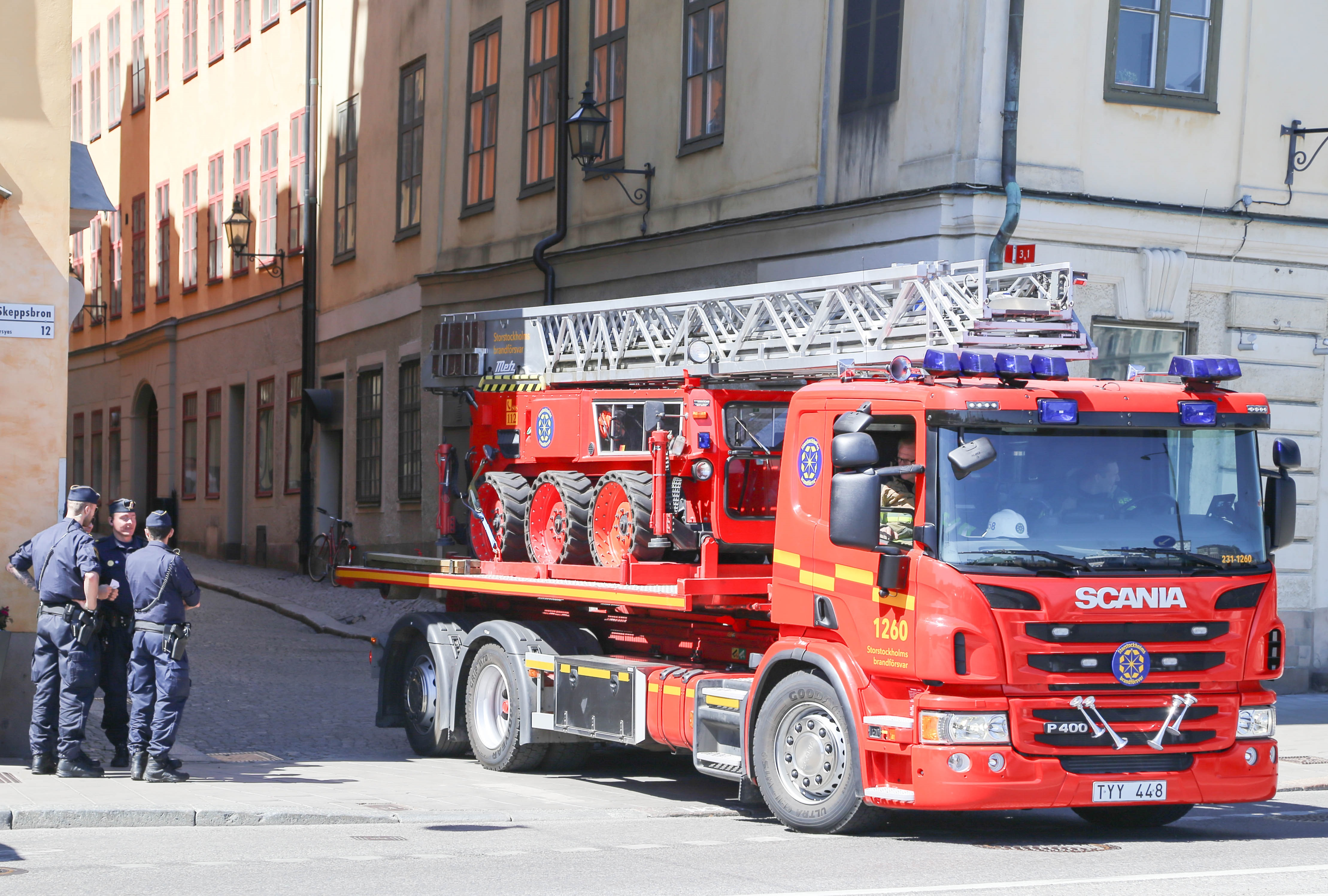 Ladder Metz on a Scania, in Old Town, Stockholm, Sweden